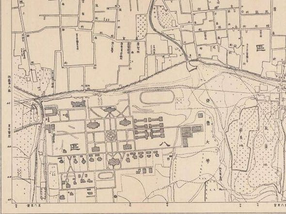 The plan of Cheeloo University in 1933,from a map of Tsinan．